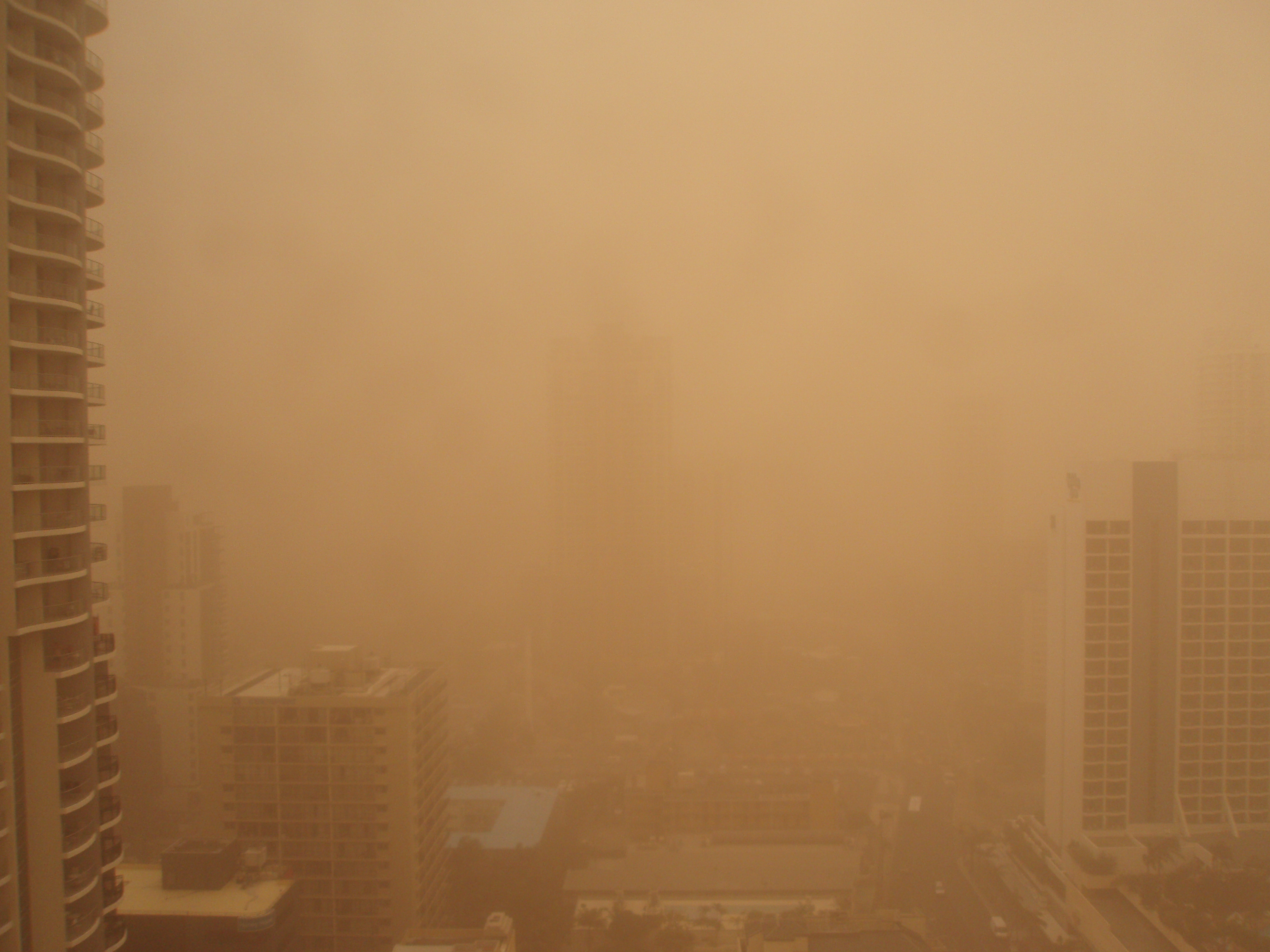 Dust storm at the Gold Coast Australia